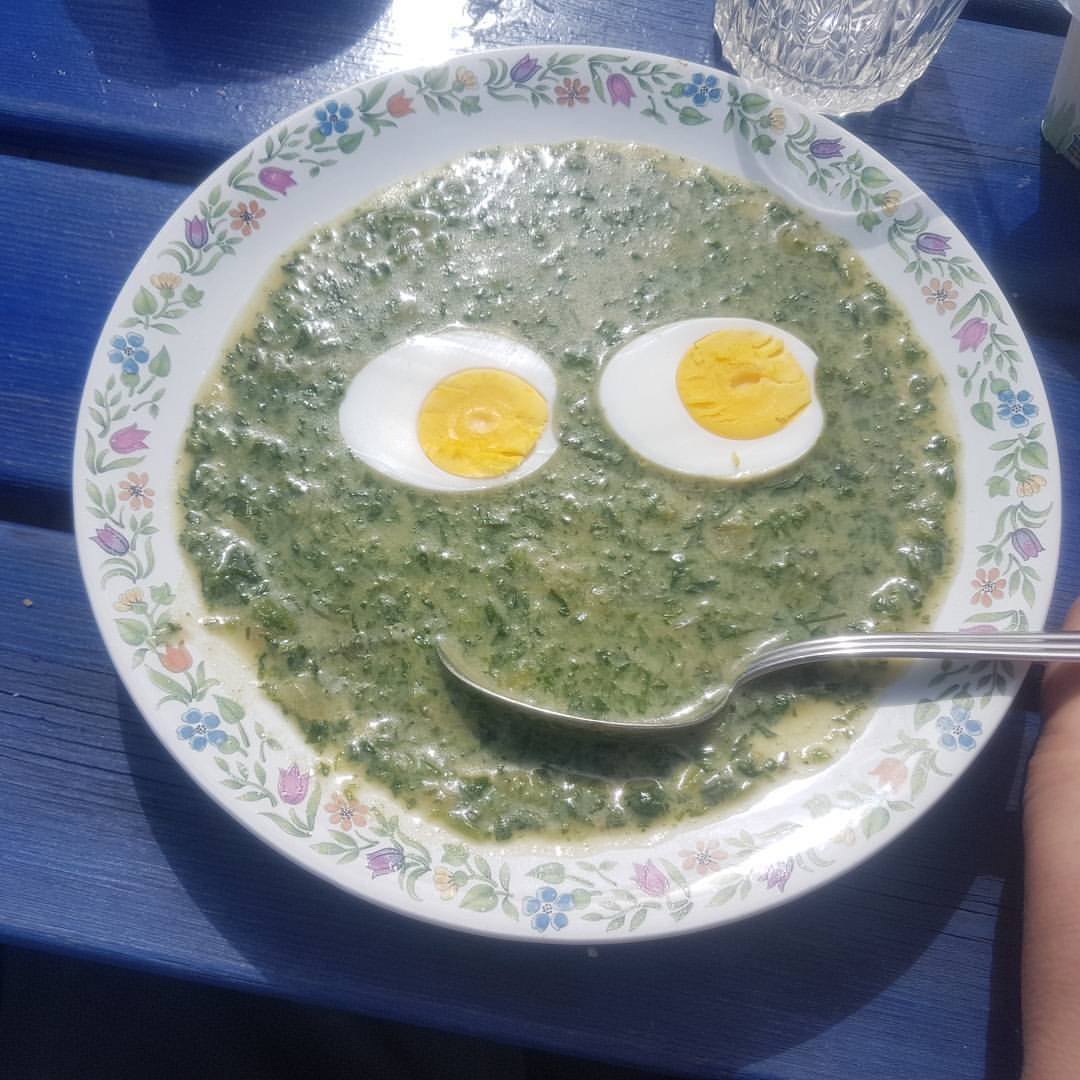 Swedish spinach soup with egg halves.